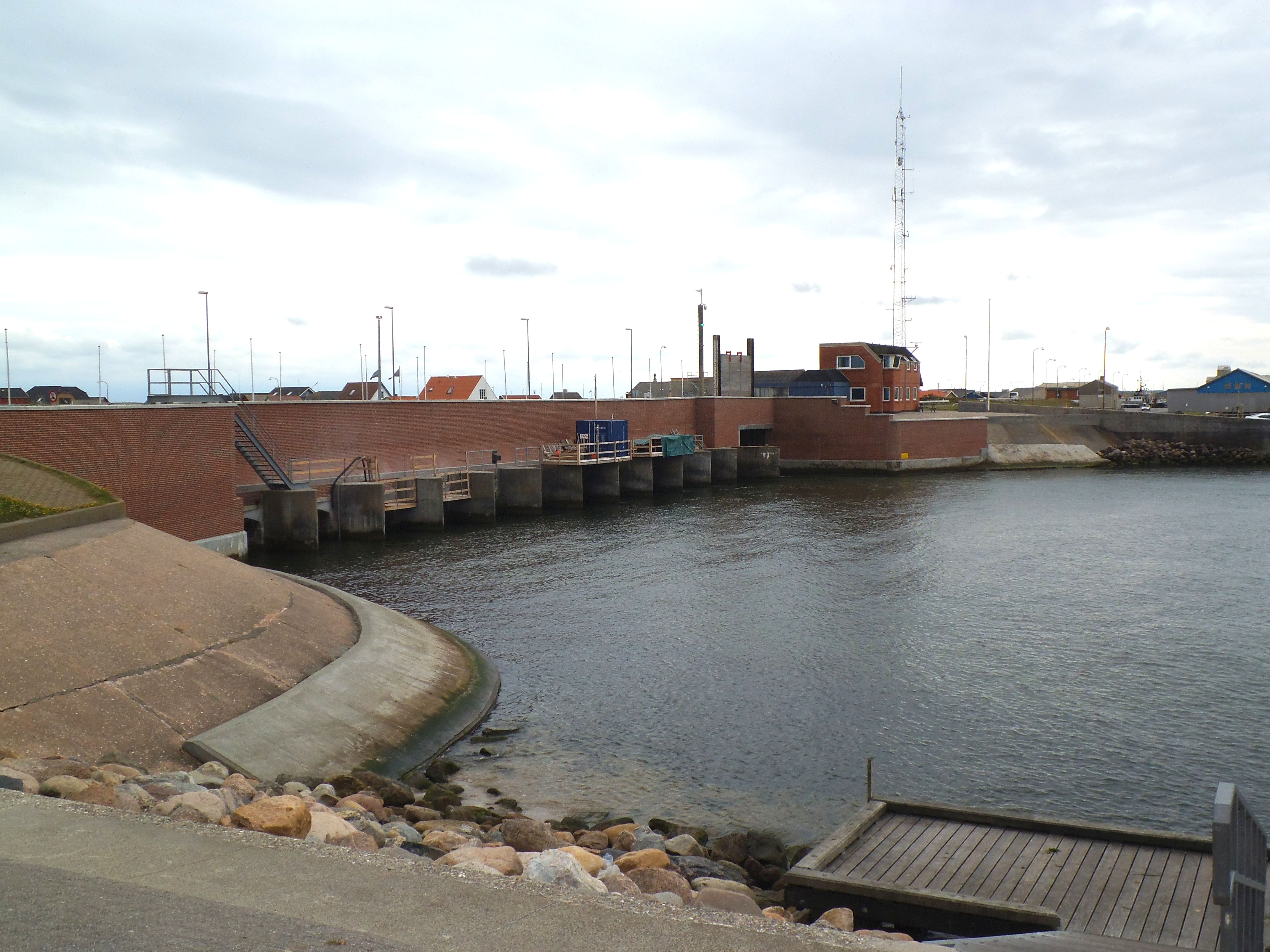 The sluice of Thorsminde, Jutland